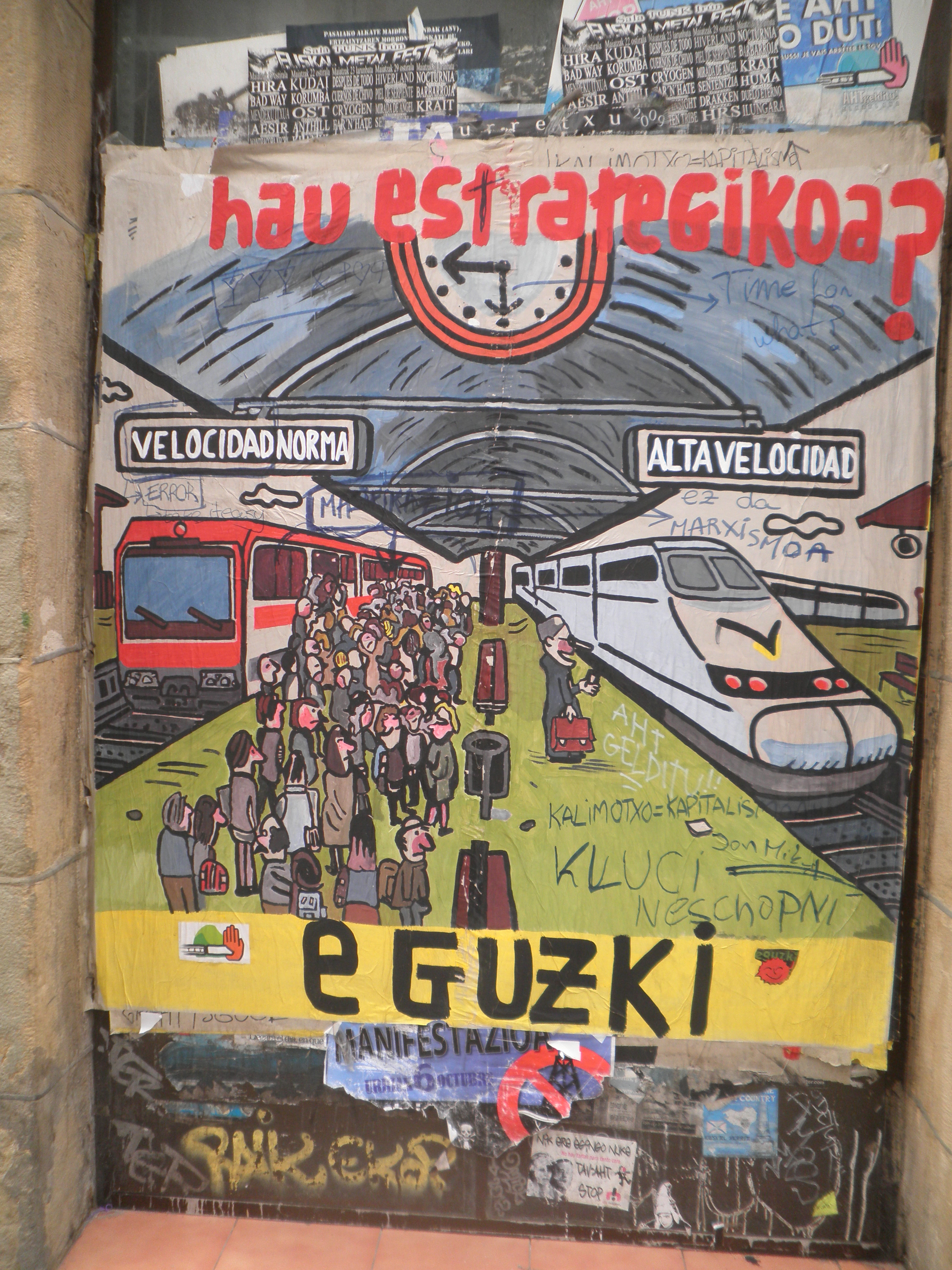 Mural against the construction of AHT in Ikatz kalea, Donostia.